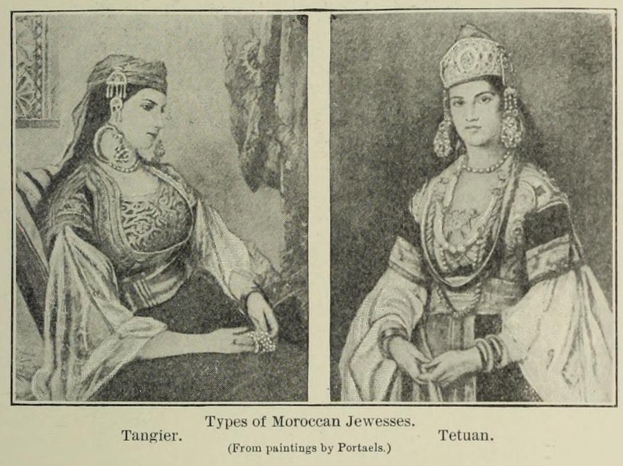 From the Jewish Encyclopedia Vol. 9